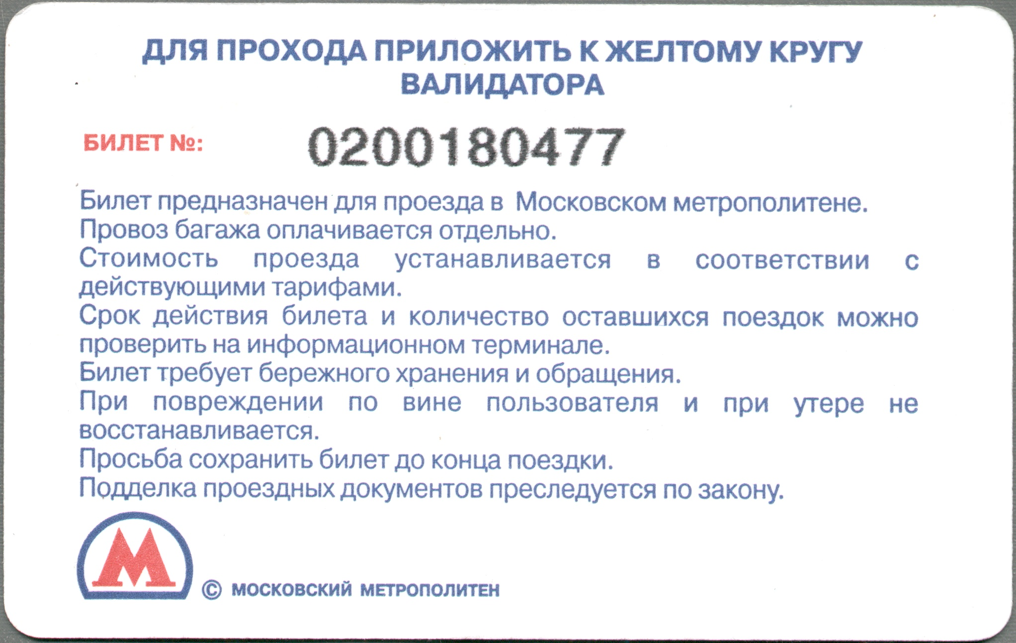 Moscow Metro Transit Card (back)